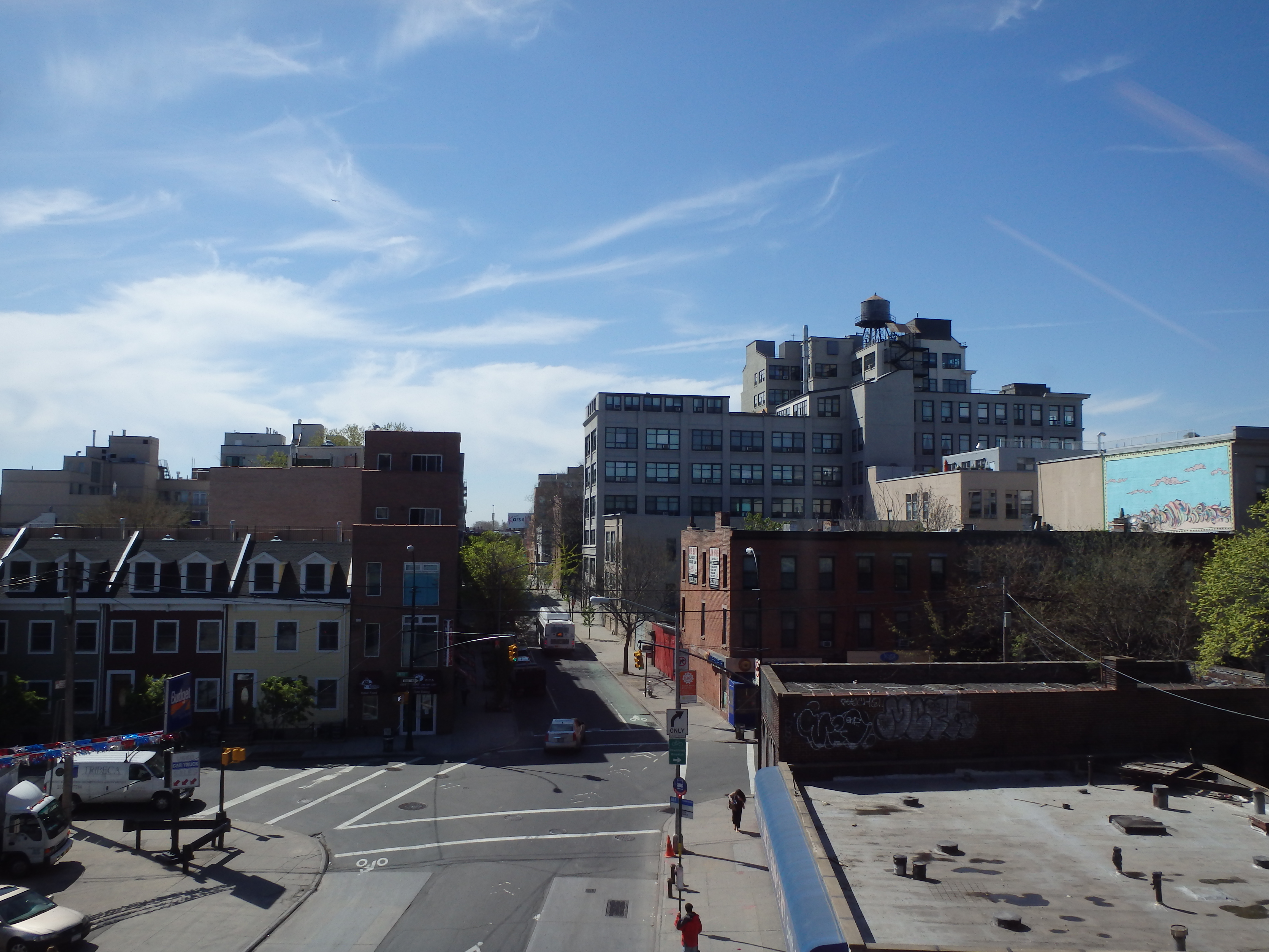 A trip to the recently reopened Smith/9 St station on the F & G lines. It is the highest subway station in the world, spans the Gowanus Canal and straddles the 9 St lift bridge over the Gowanus Canal.